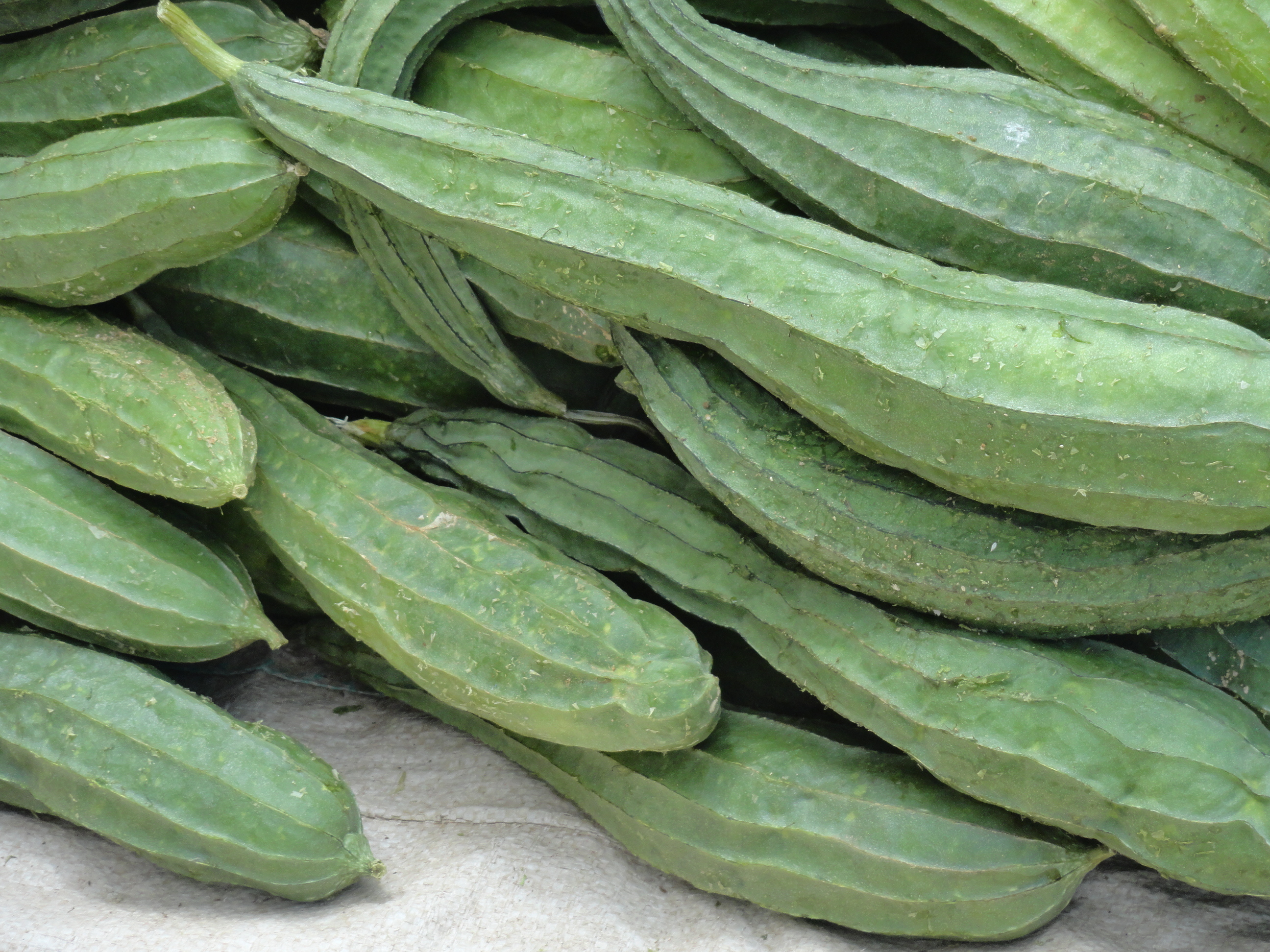 బీరకాయలు....2